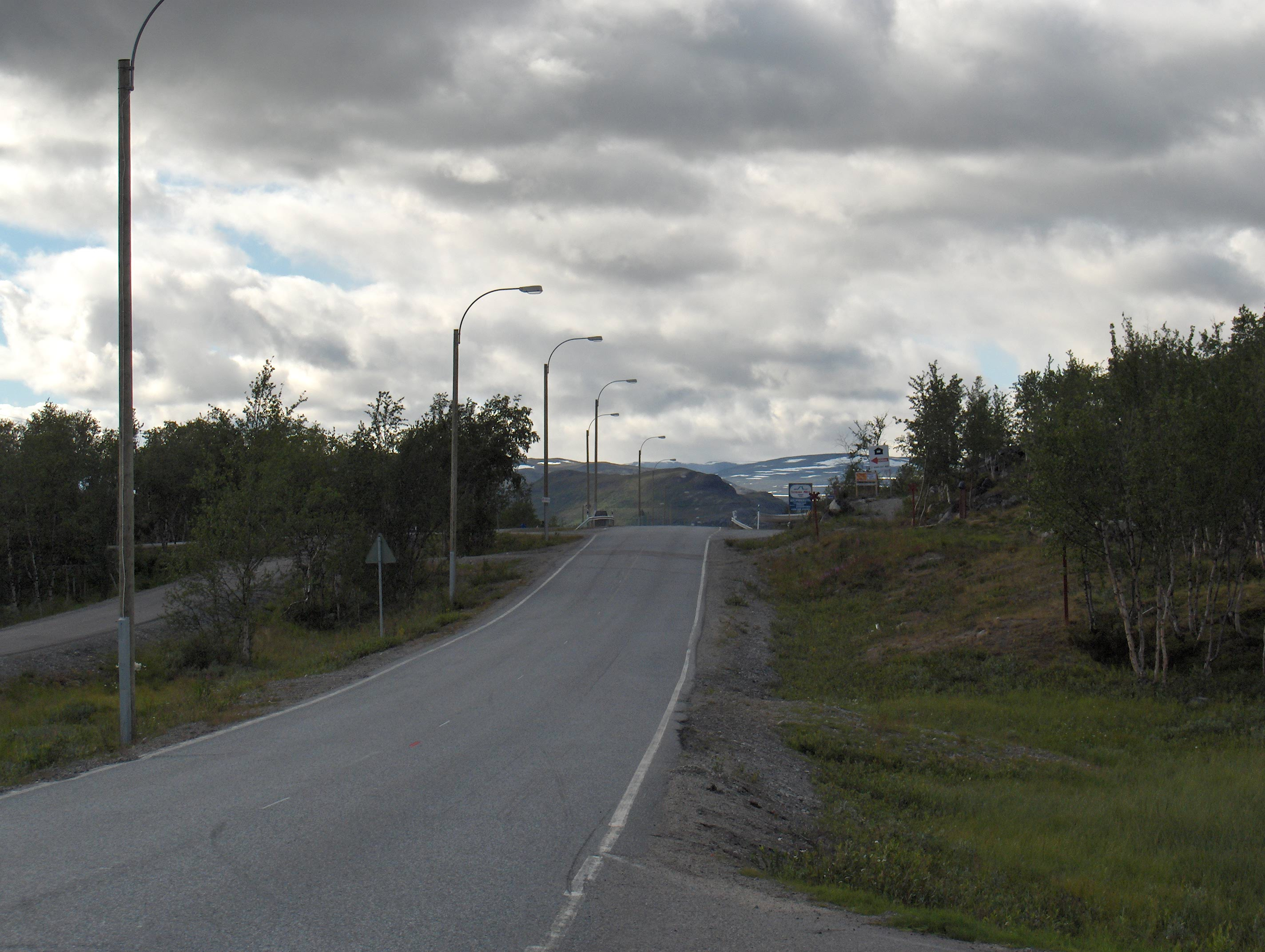 National road 21 (E8) at the south end of Kilpisjarvi (looking north) in Enontekiö, Finland.